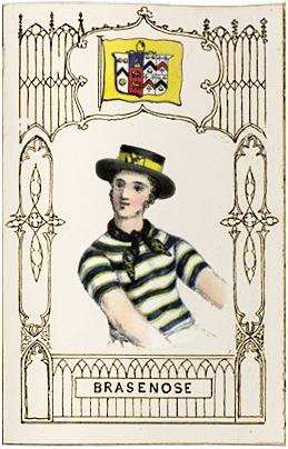 Oxford college rowing jerseys - booklet of lithograph plates - 1 of 6 - c. 1848